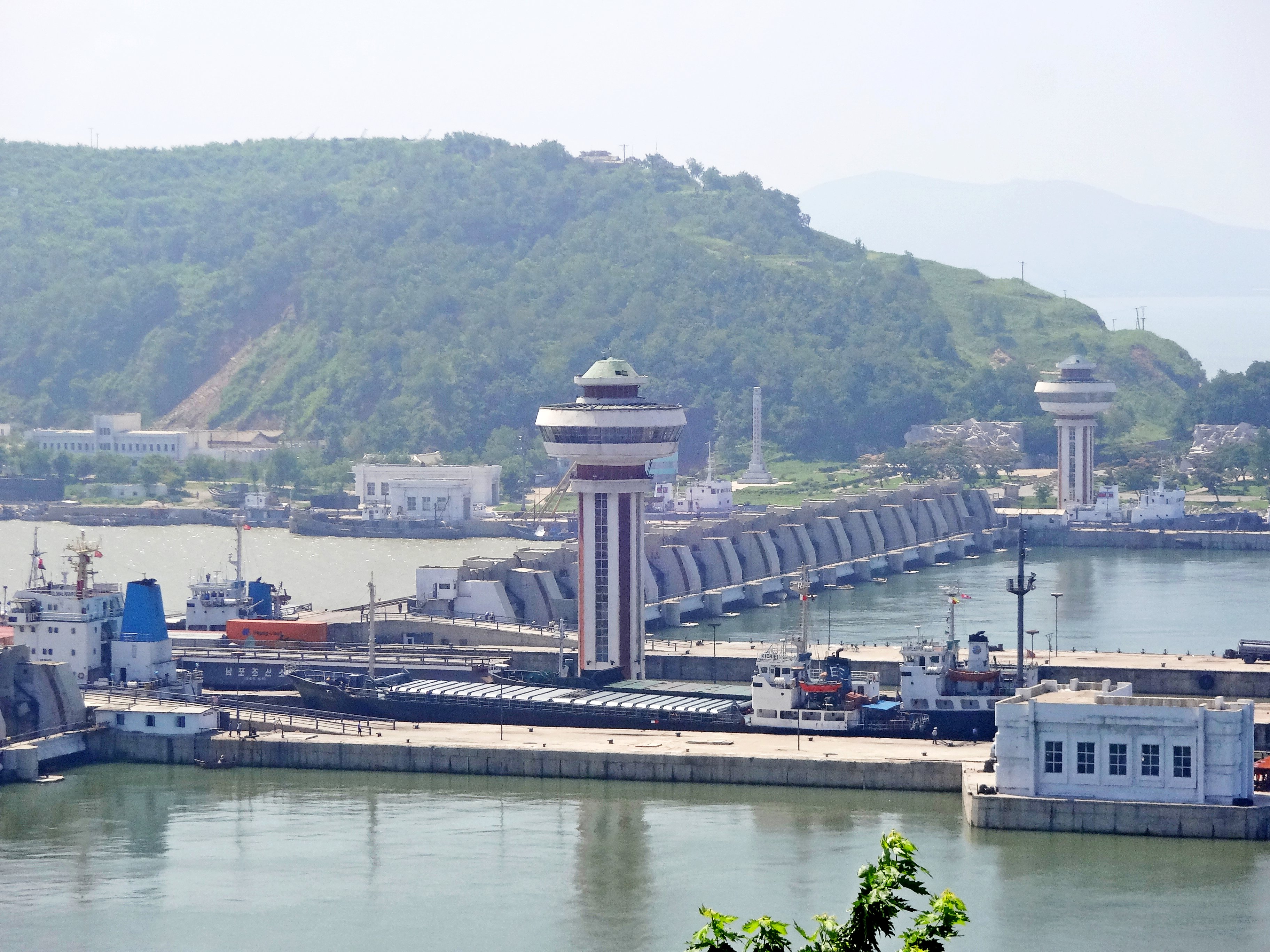 Close-up of the locks of Nampo dam